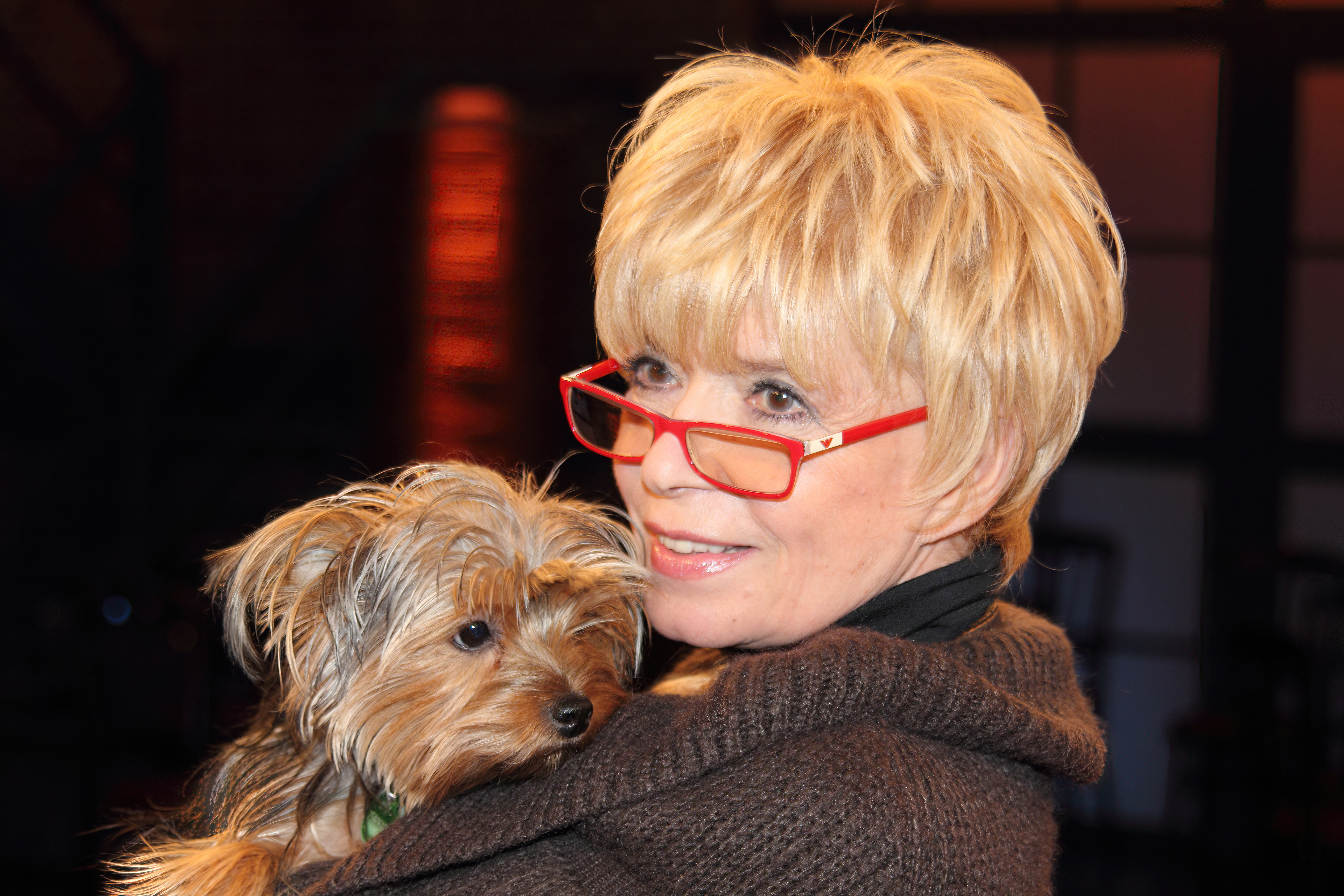 german actress Ingrid Steeger, dog Eliza Doolittle